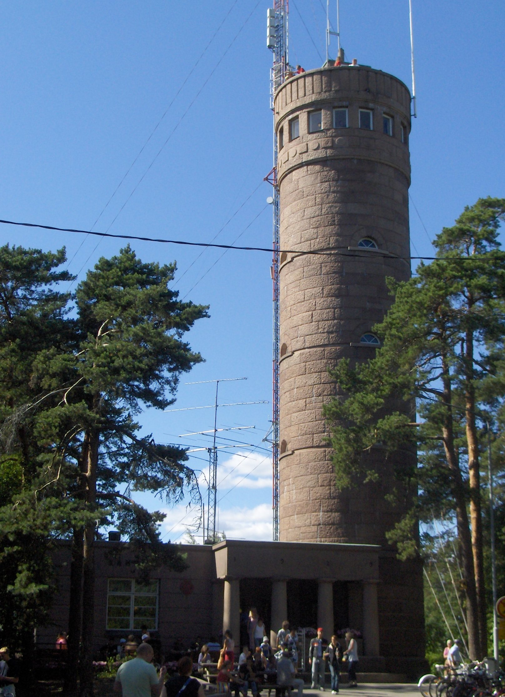 Pyynikki observation tower in Tampere, Finland